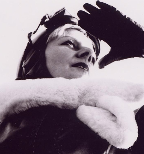 Photographic selfportait of the German artist Cornelia Schleime as a pilot, here a special wiki-version.